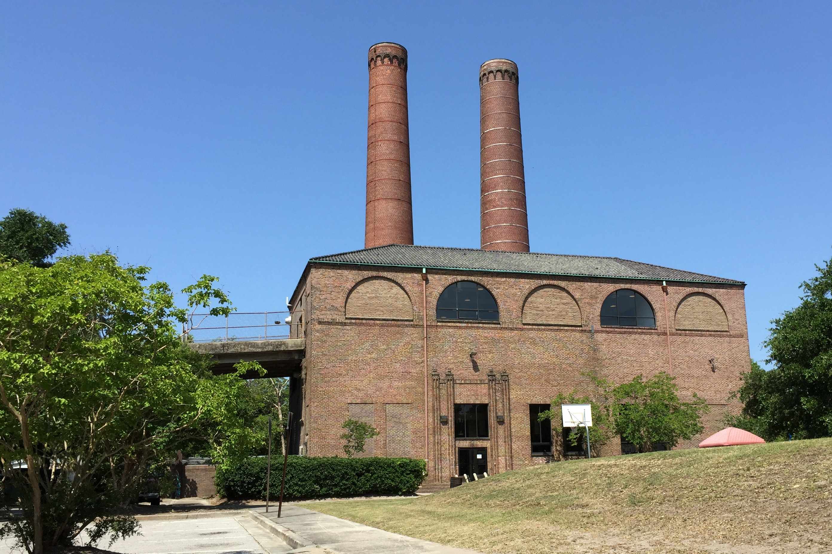 St. Julian Devine Community Center, 1 Cooper Street, Charleston, South Carolina